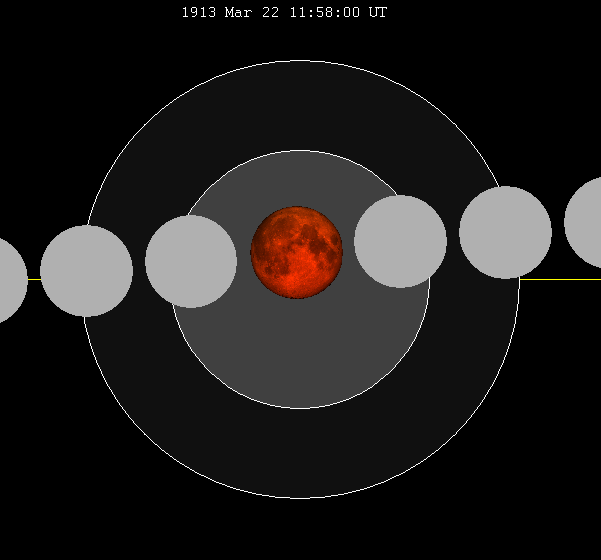 September 1913 lunar eclipse chart of moon's total lunar eclipse path through the earth's shadow. thumb